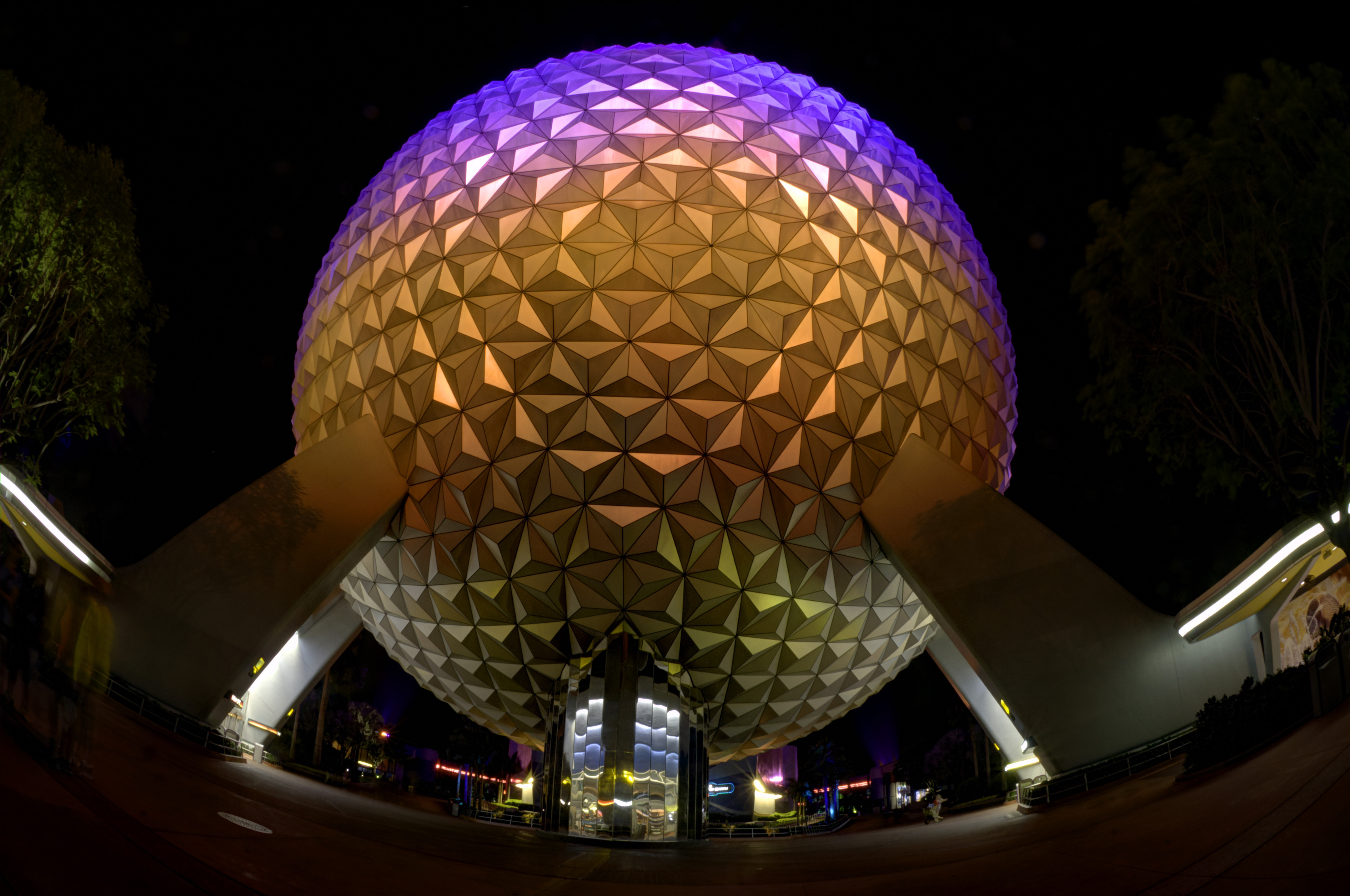 Spaceship Earth